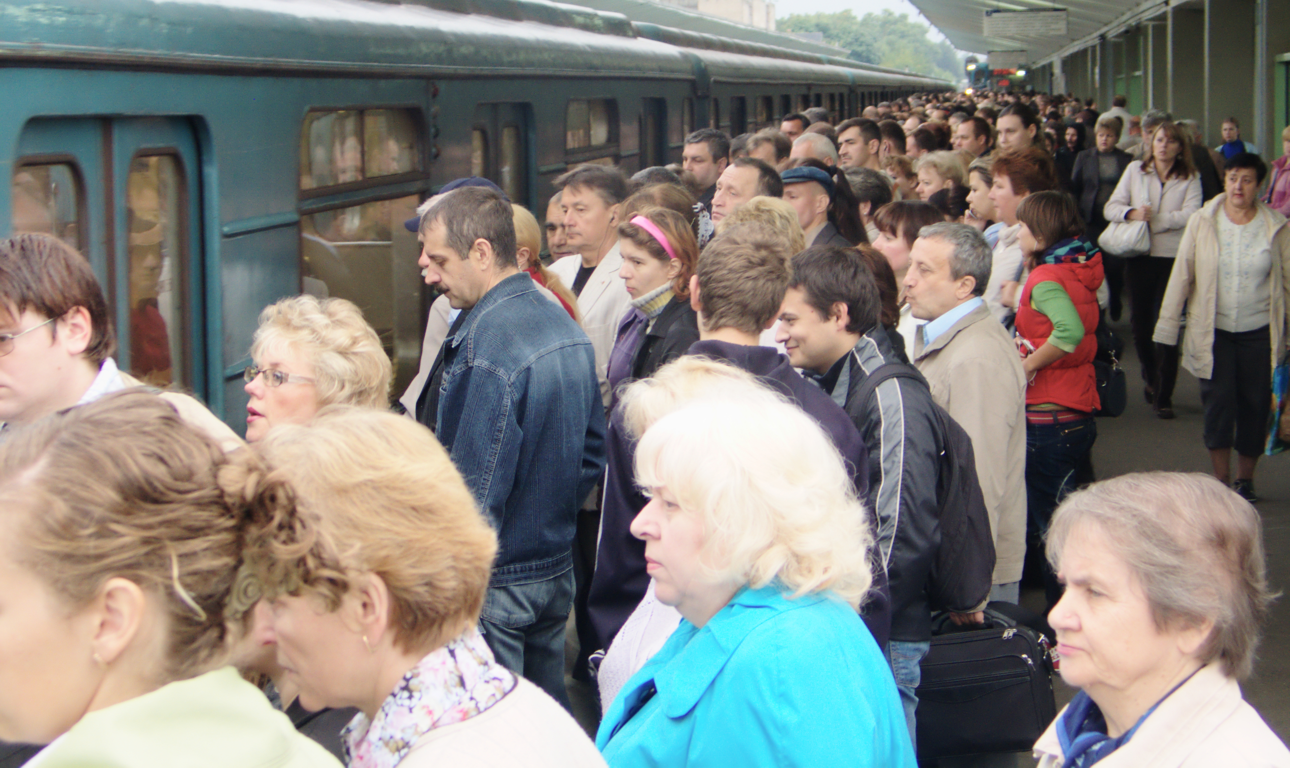 Rush hour at Vyhino, the most overloaded Moscow Metro station. Train is going to the city center.